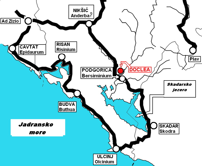 Doclea ancient, and ancient roads